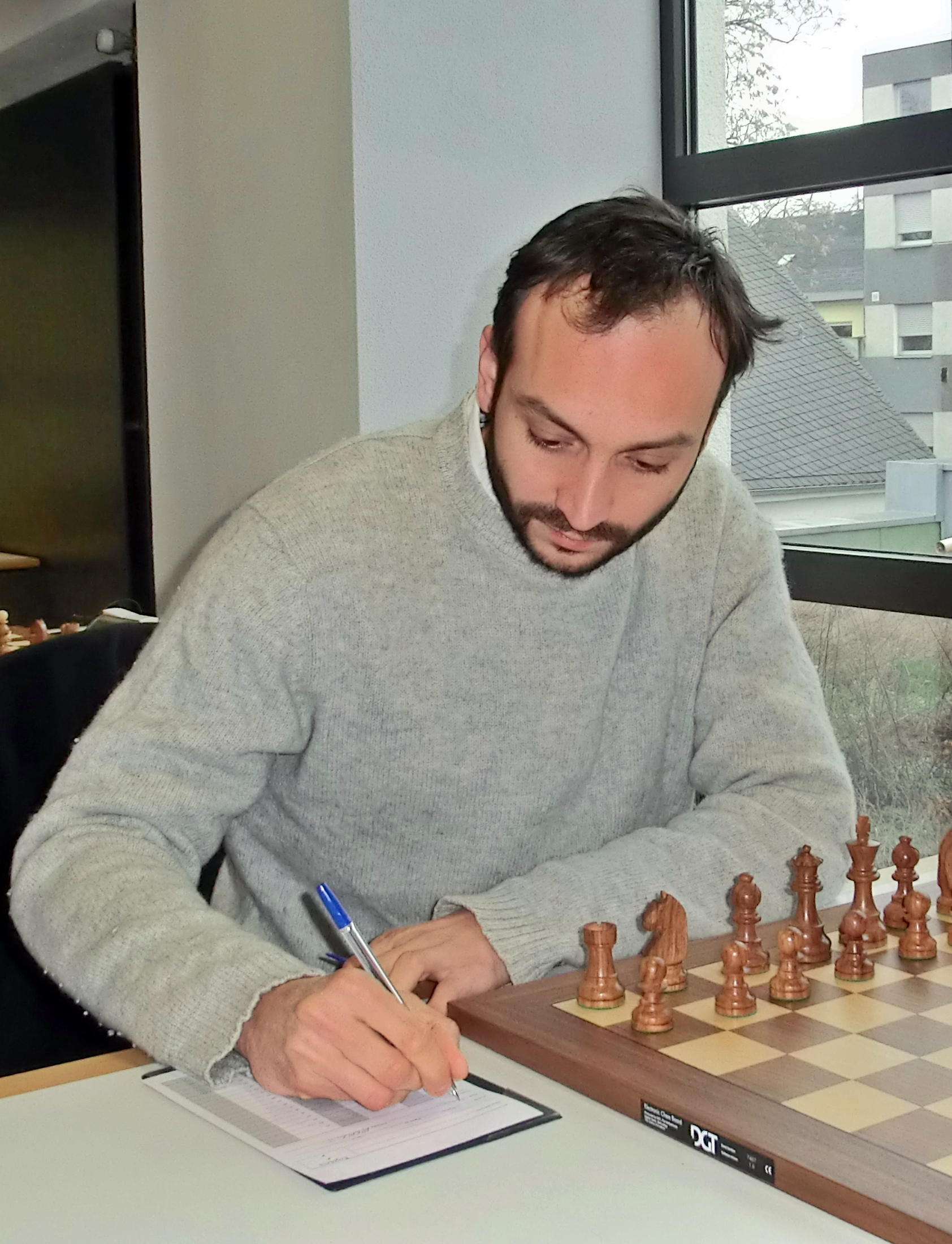 Thal Abergel, chess grandmaster from France